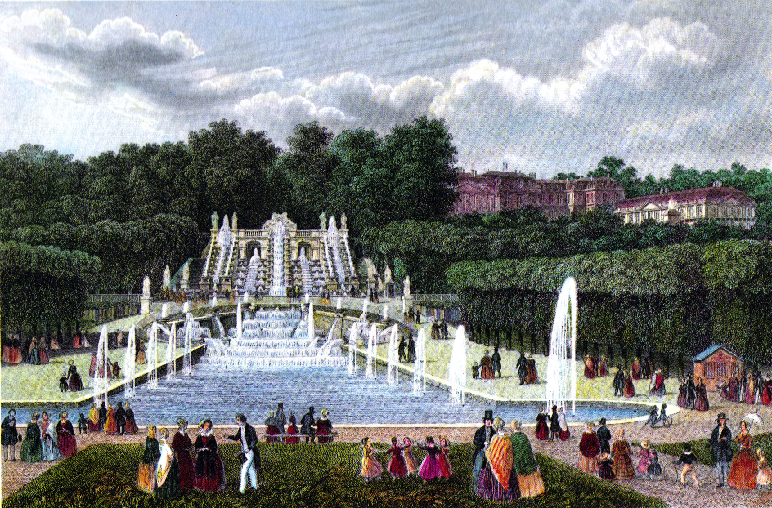 Chateau and fountain at Saint-Cloud, around 1845. Engraving by Chamouin after a daguerrotype.